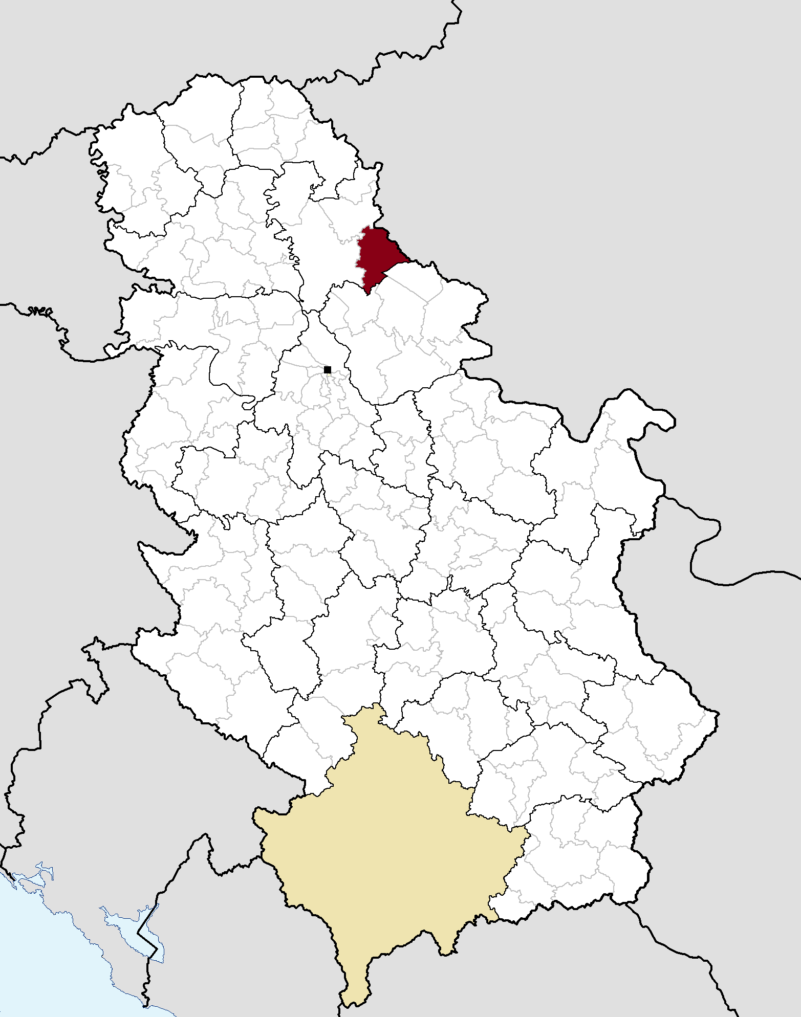 Municipal location in Serbia